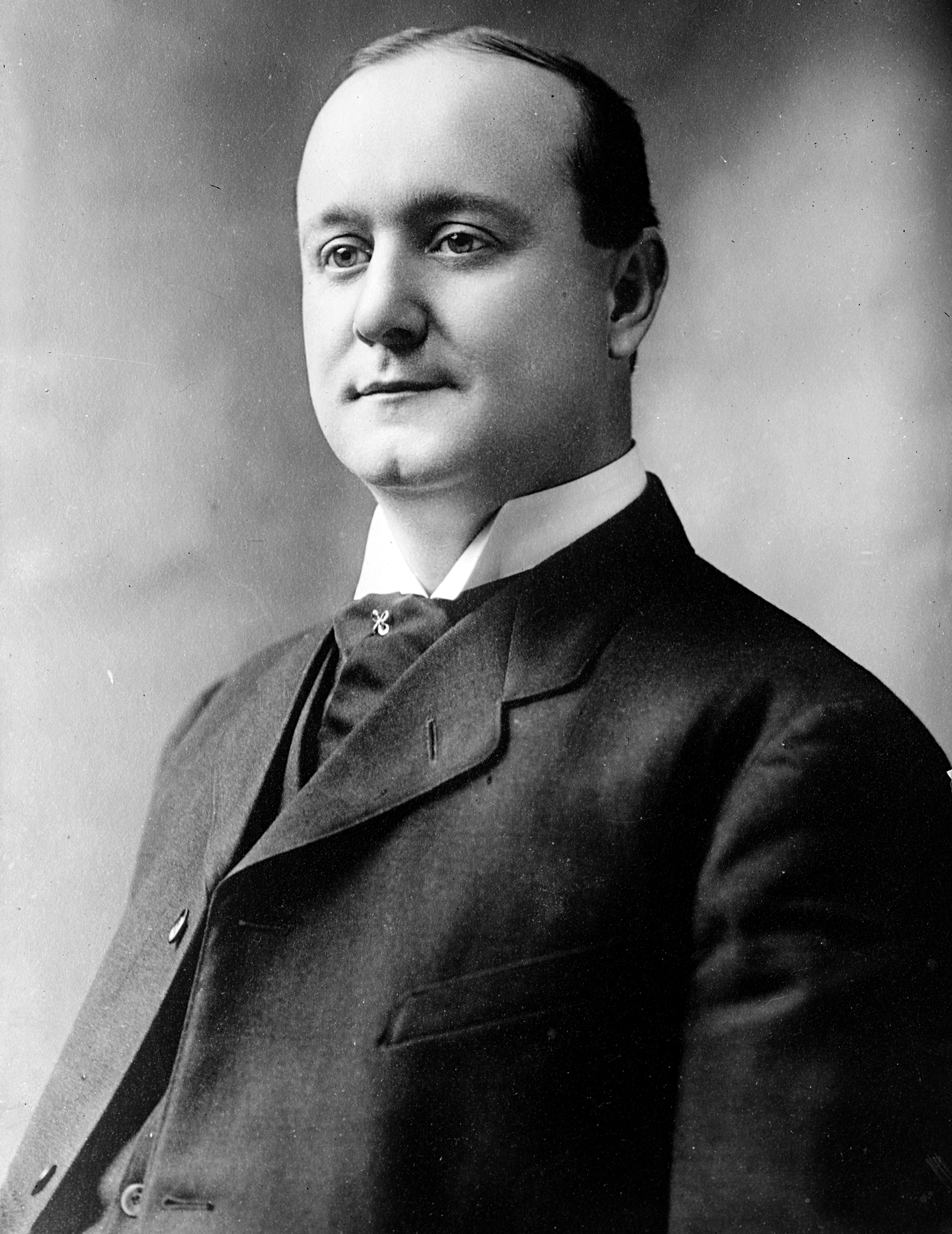 Wooda Nicholas Carr, US Representative from Pennsylvania